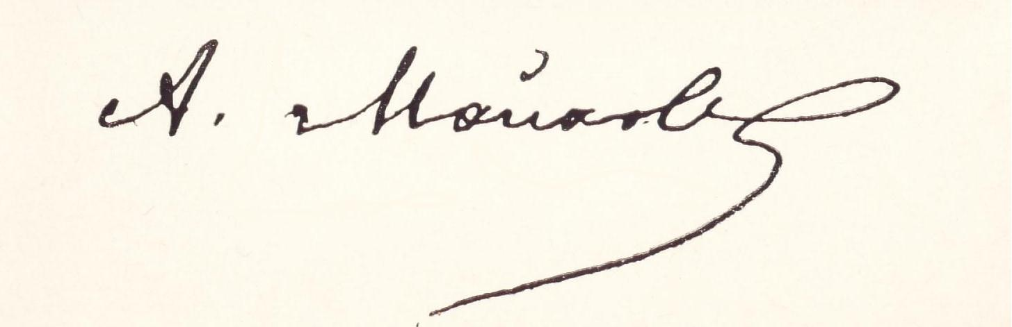 The signature of Apollon Maykov (1821–1897), Russian poet.